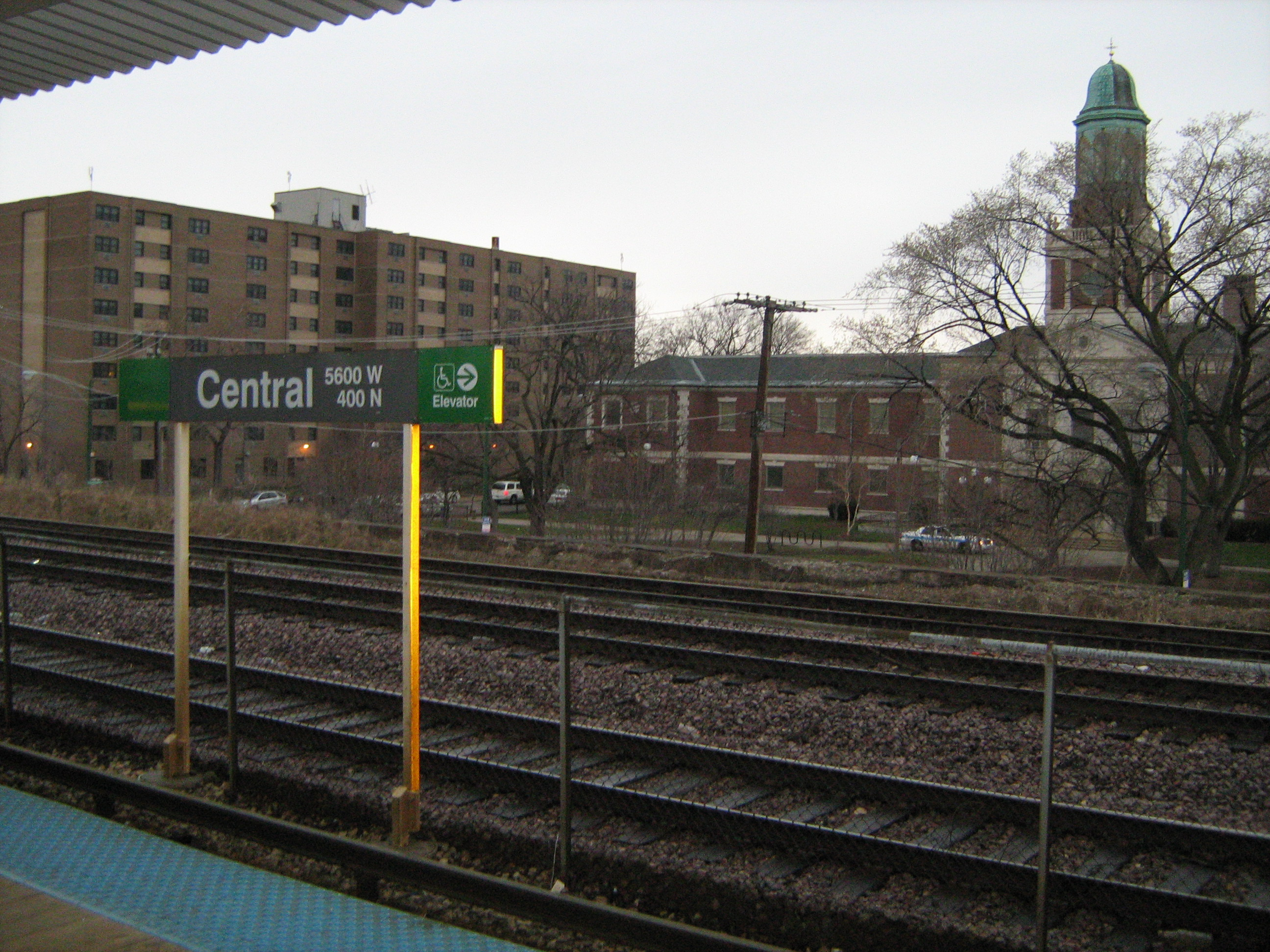 Central CTA Green Line Station